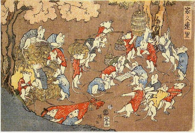 Hidden village